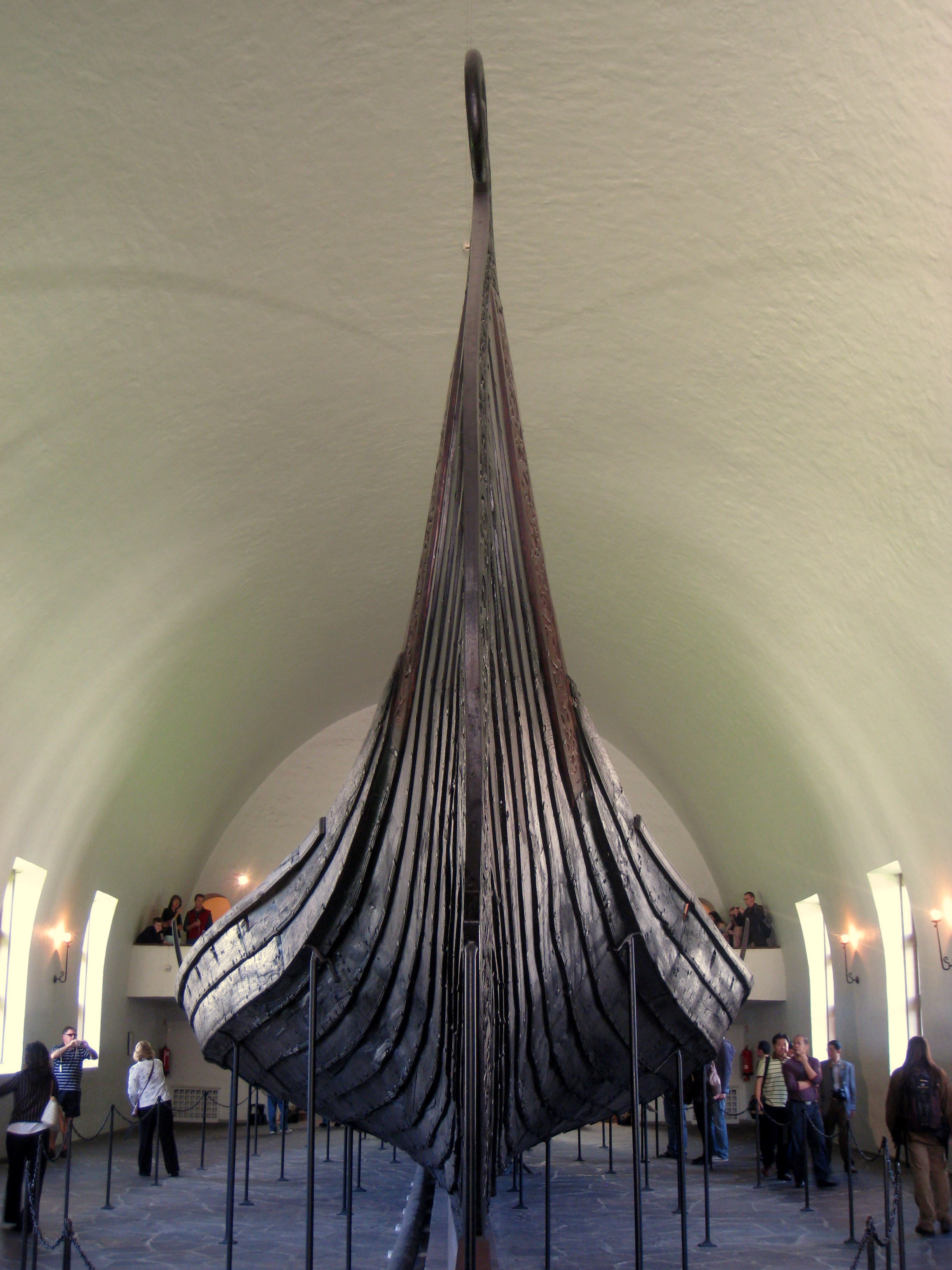 Oseberg ship, Kulturhistorisk museum (Viking Ship Museum), Oslo, Norway.